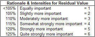 Part of a series of images to illustrate an article on the Analytic Hierarchy Process